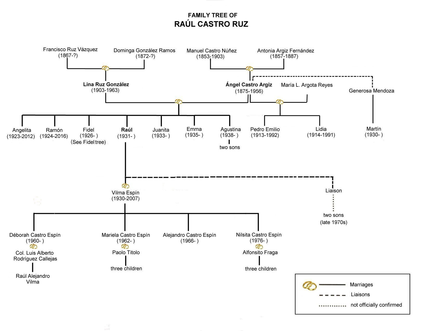 Family tree of Raúl Castro